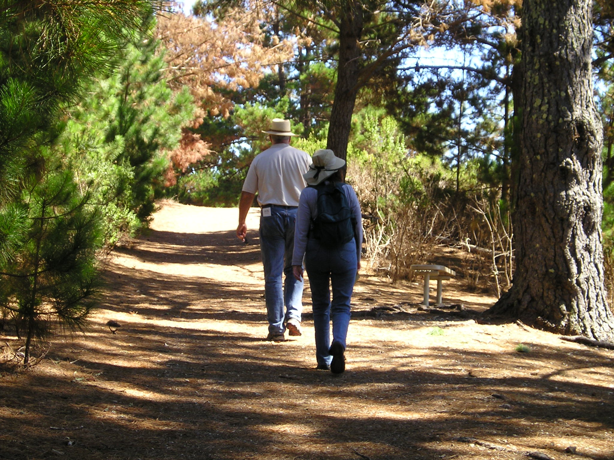 Trail in Jacks Peak Park, with Monterey Pines